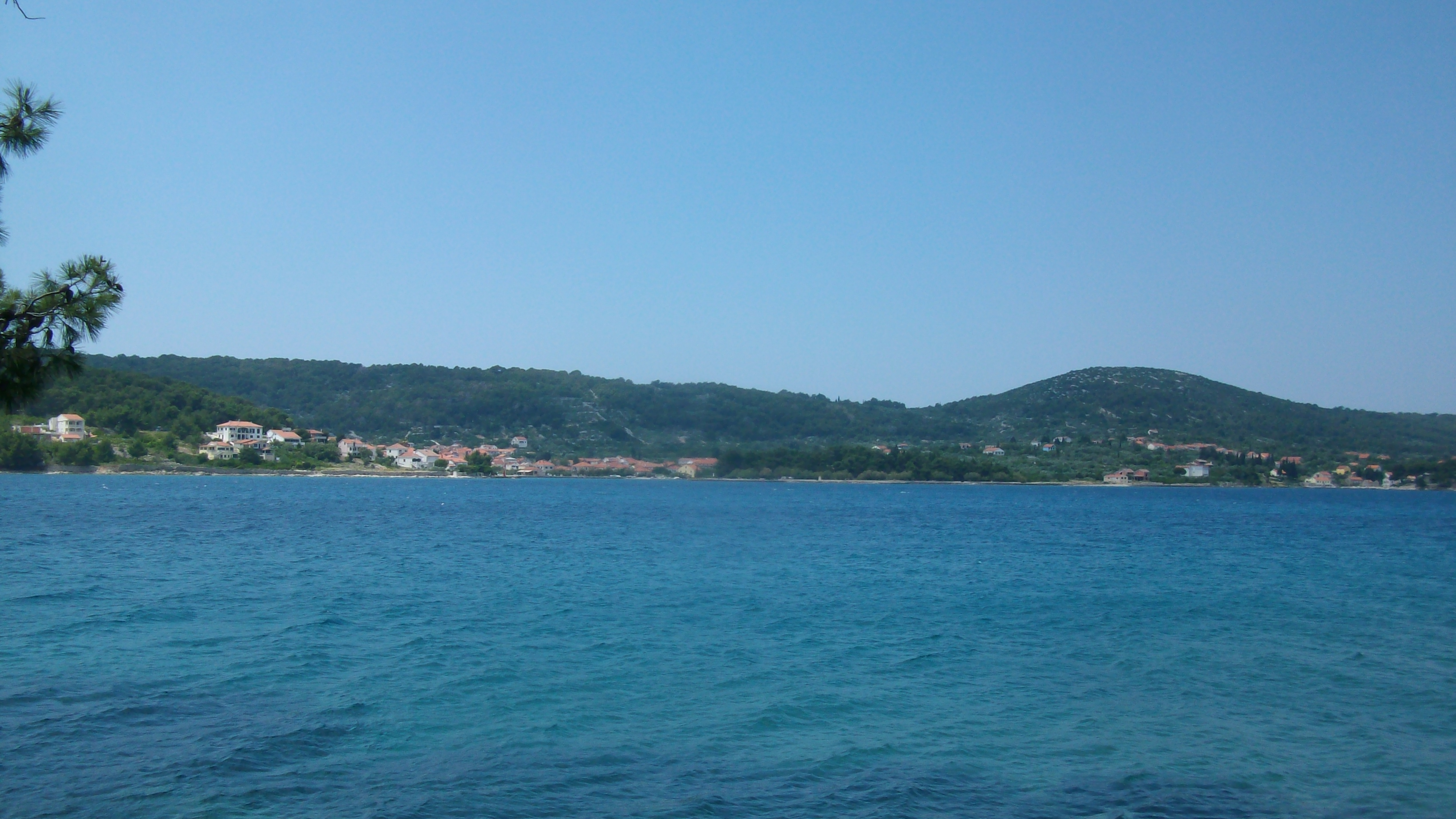 Veli Iž from Island Rutnjak, right Korinjak (168 m), Croatia